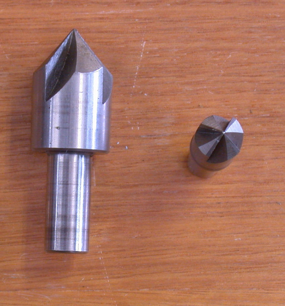 Photograph taken by Glenn McKechnie on the 24th March 2005.